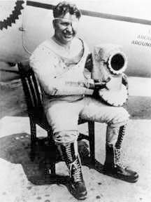 Photography of aviator Wiley Post in his third space suit.